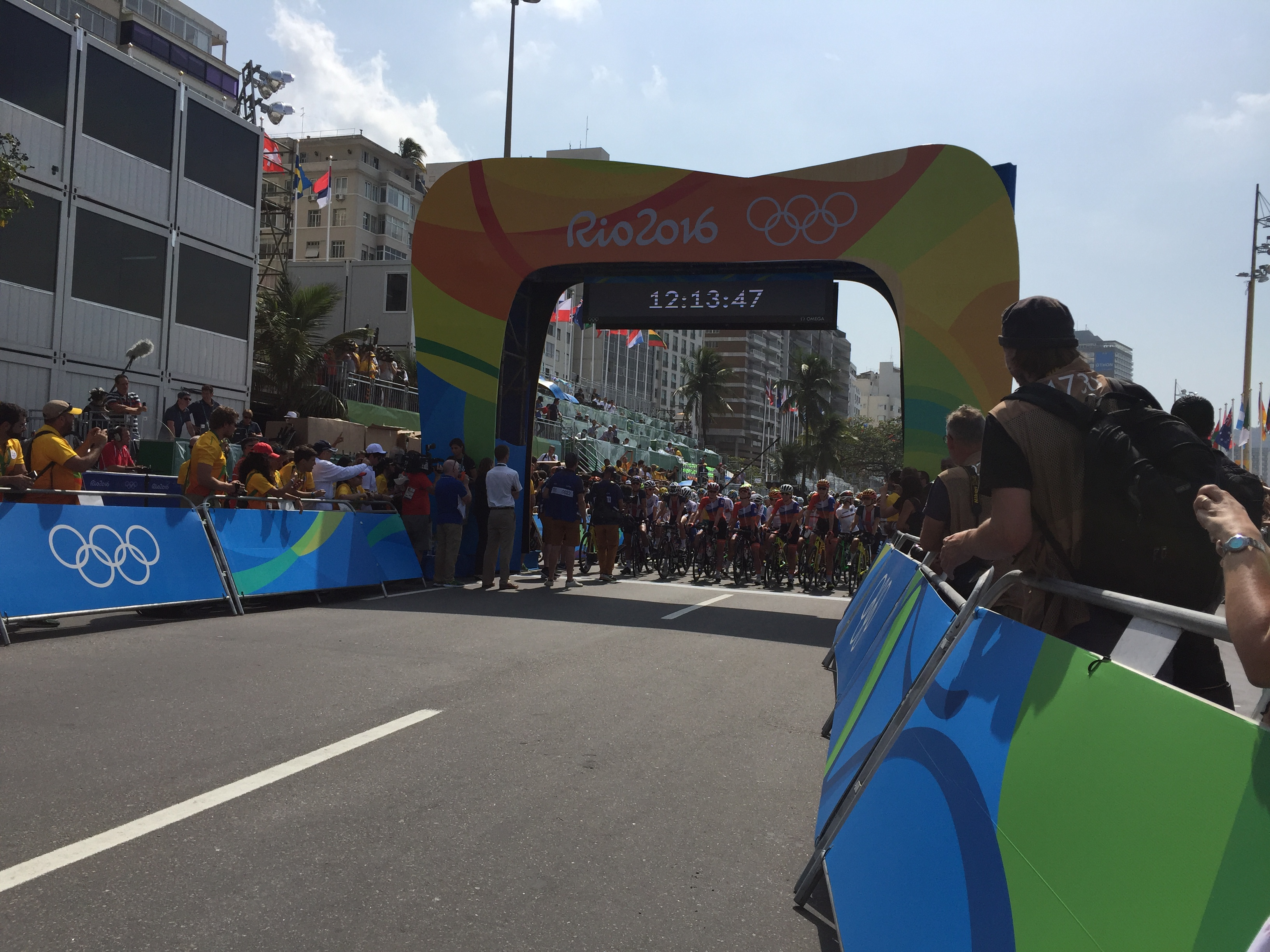 Rio 2016 - Women's road race